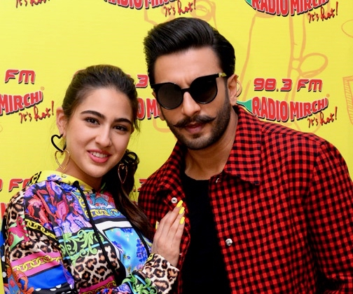 Ranveer Singh and Sara Ali Khan promote ‘Simmba’ at 98.3 FM Radio Mirchi